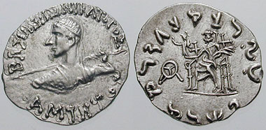 Coin of the Indo-Graeco king Antialkidas